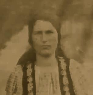 Elisabeta Rizea, young - Heroine of the Romanian anticommunist resistance, belonging to the Haiducii Muscelului group also known as Gruparea Nucşoara, Făgăraș montains area.